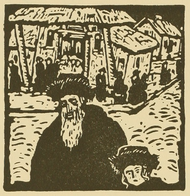 From Land to Land - Going to shul (synagogue).